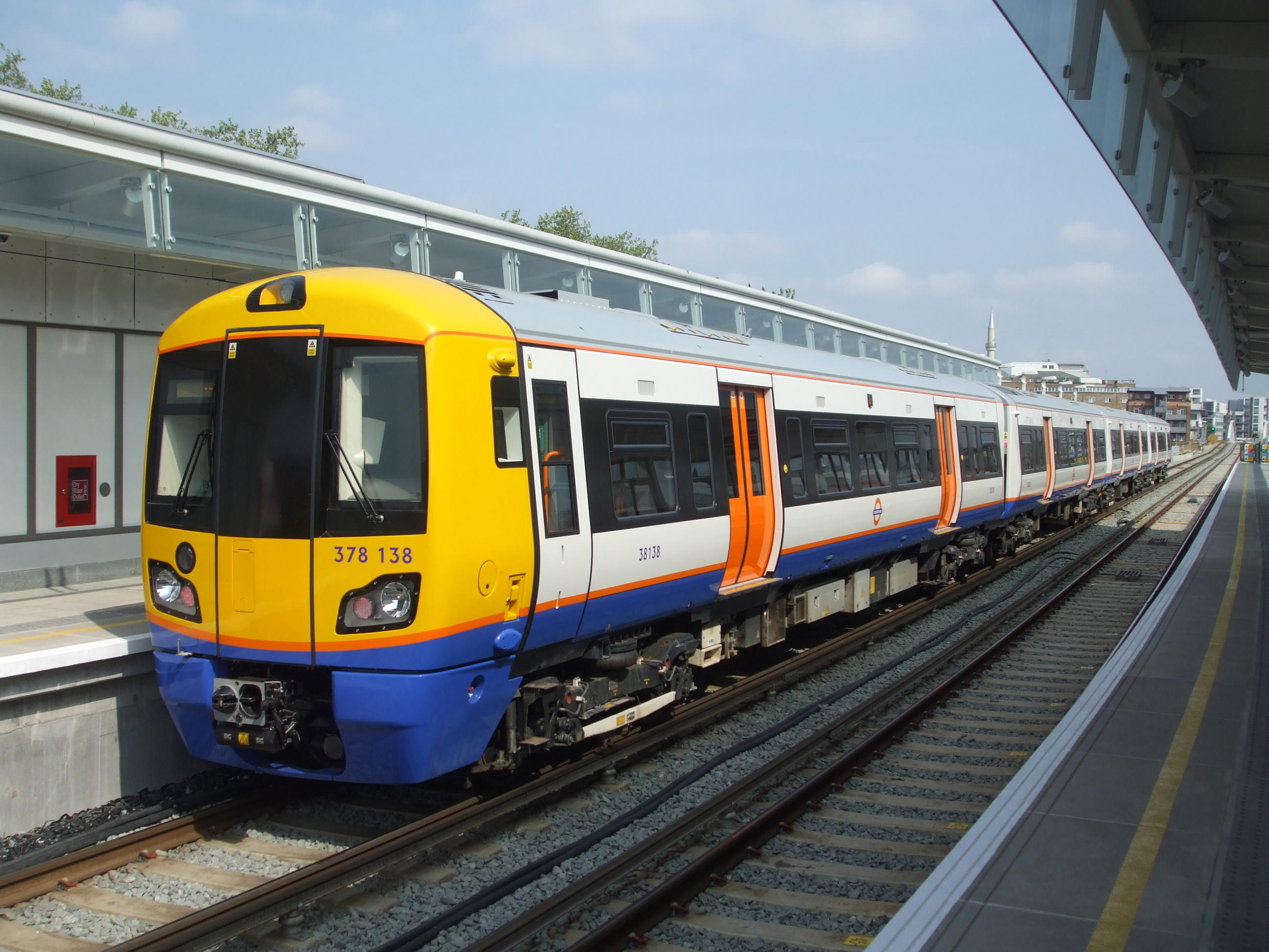 Class 378 unit 378138 calls at Hoxton with a Dalston Junction service.